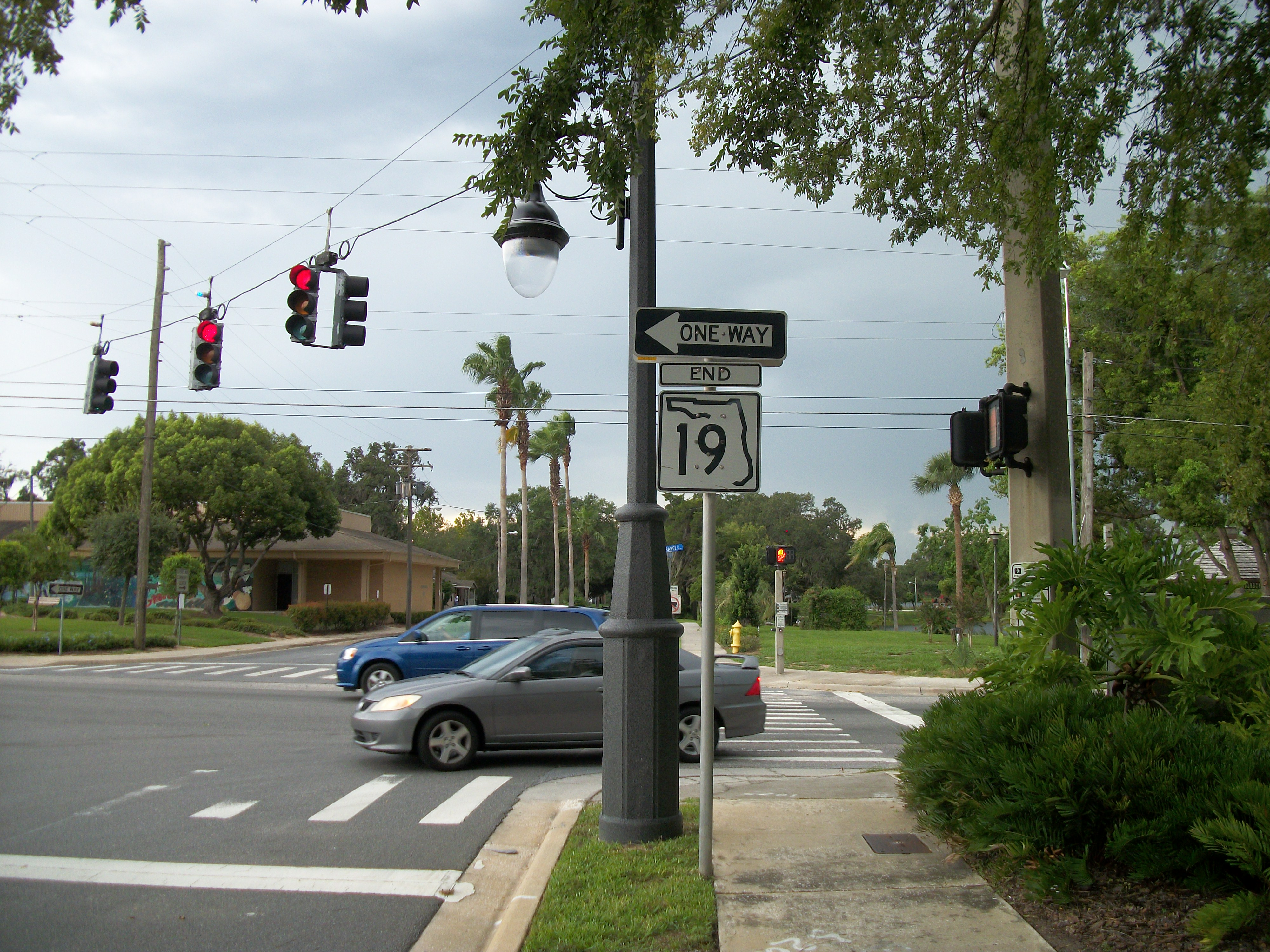 The southern terminus of Florida State Road 19 at the intersection with Eastbound Florida State Road 50 in Groveland, Florida. Just out of view to the right is Groveland City Hall.